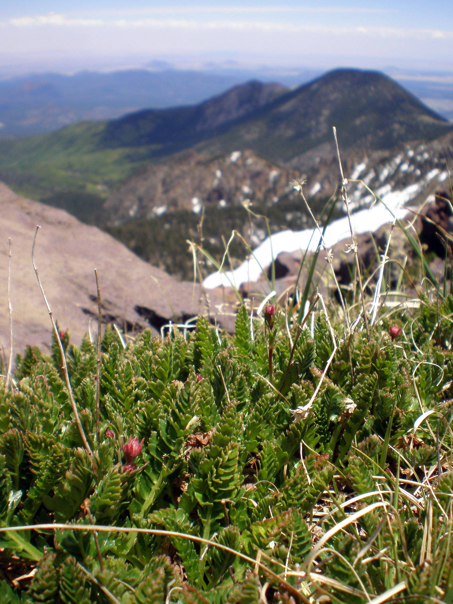 Alpine tundra atop Humphreys Peak on the San Francisco Peaks. Taken on 6-13-09 by Brady Smith. For detailed information on this trail, go to Credit: USDA Forest Service, Coconino National Forest.